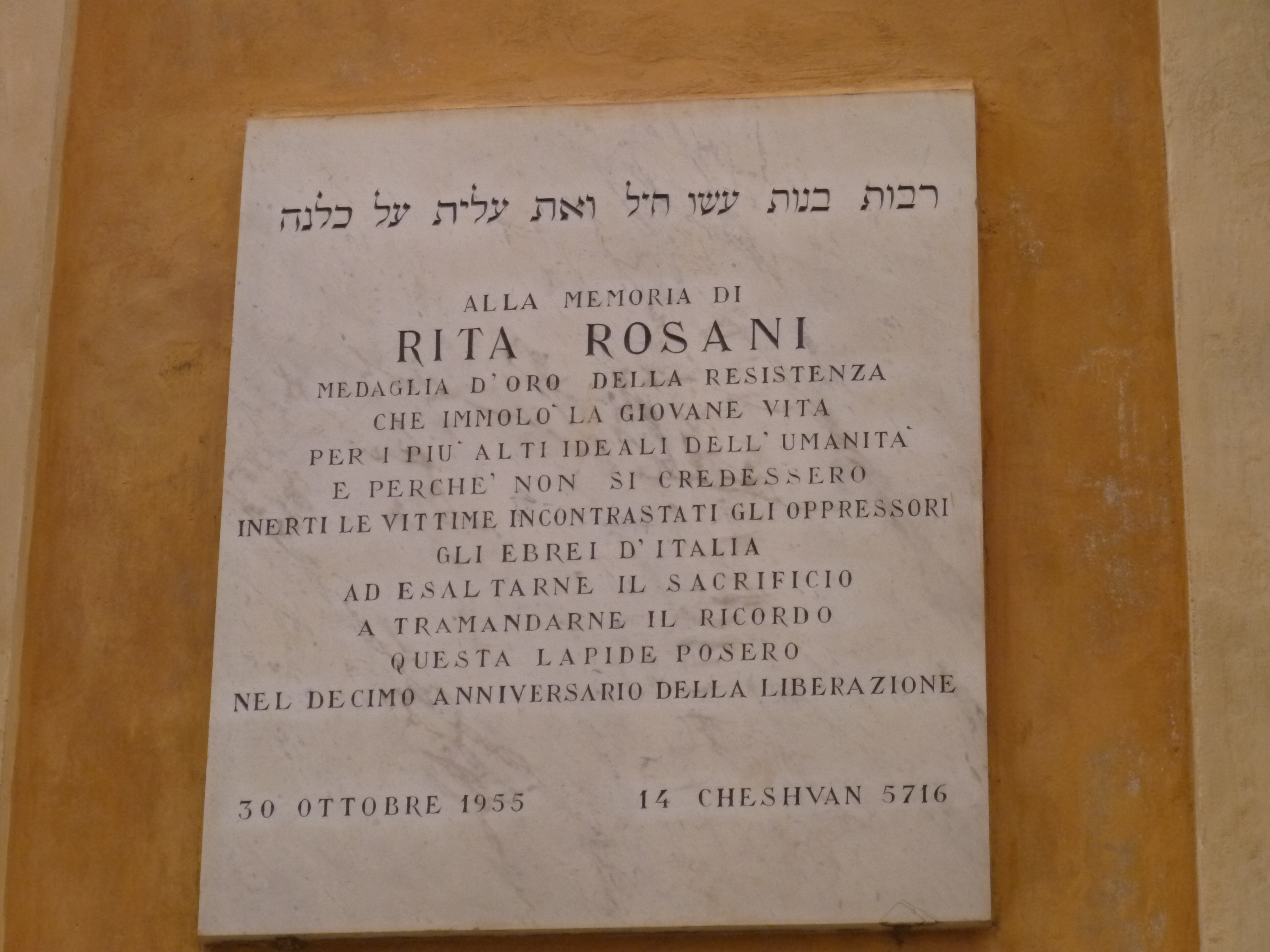 Plaque commemorating Rita Rosani; Synagogue in Verona, Italy